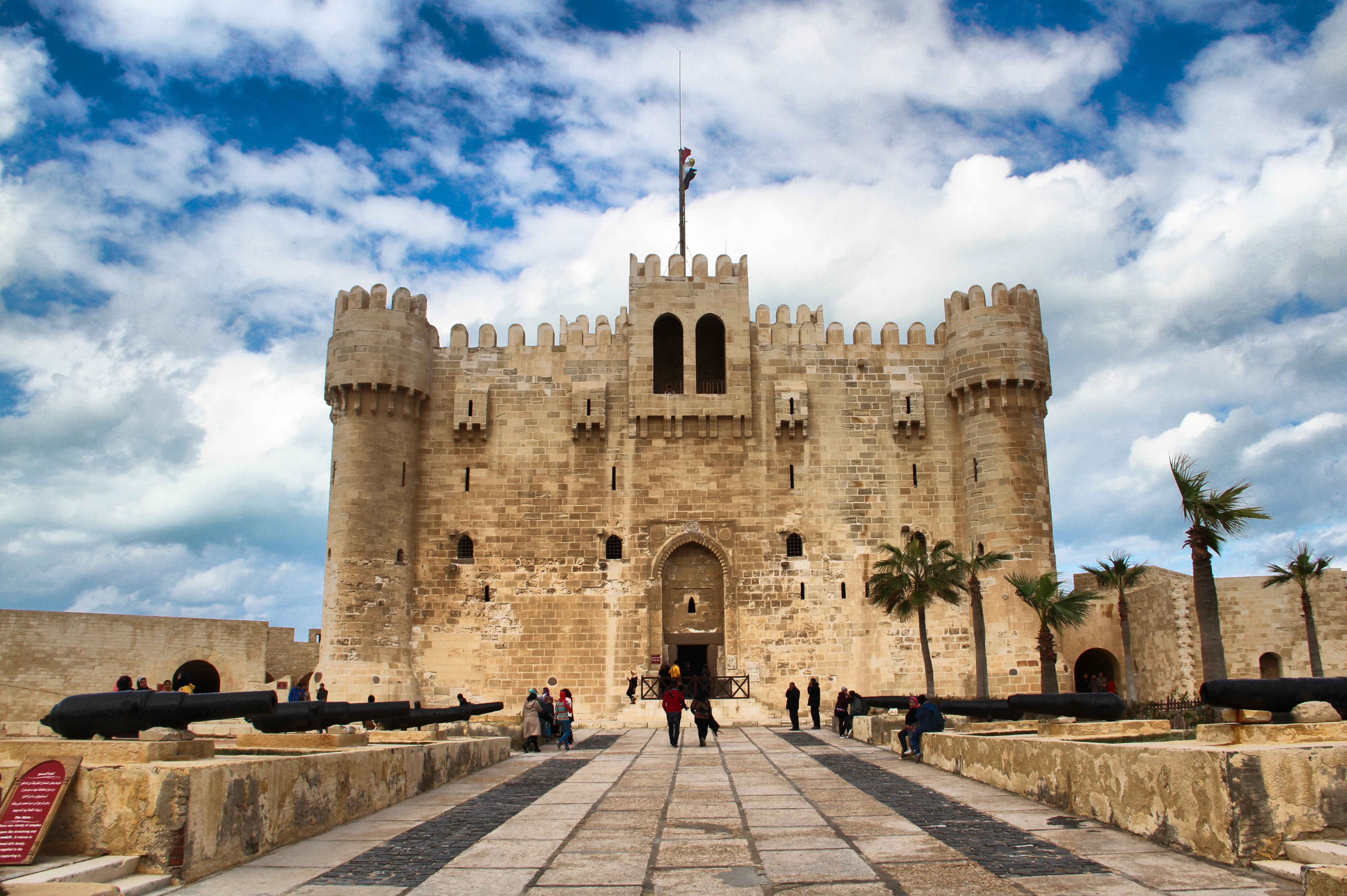 This castle is located at the end of the island of Pharos maximum west of Alexandria. And constructed in place of the old Alexandria Mannar which demolishes the year 702 AH following the devastating earthquake that occurred in the reign of Sultan al-Nasir Muhammad. He began Sultan al-Ashraf Abu Al-Nasr Bey build this castle in the year 882 AH and ended 884 years of its construction. The reason for his interest in Alexandria frequent direct threats to Egypt by the Ottoman Empire, which threatened the entire Arab region has cared Mamluk Sultan al-Ghouri Qansuh castle, climbing from Jamitha and shipped arms.